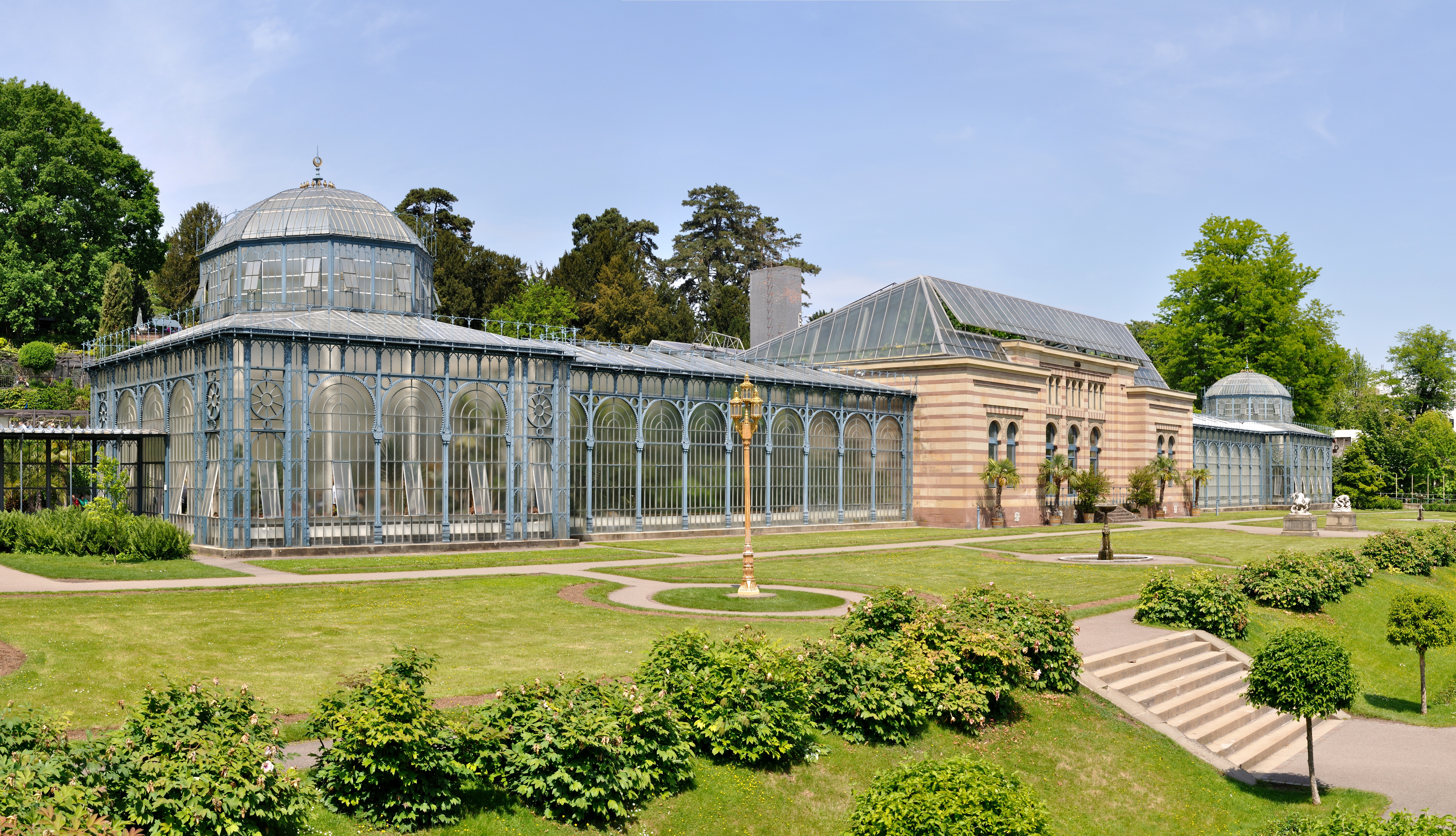 The Moorish Villa in the zoological and botanical garden Wilhelma, Stuttgart, Germany. Built in 1846, the building was used as summer residence by Wilhelm I., King of Württemberg. Nowadays it is used as a greenhouse.